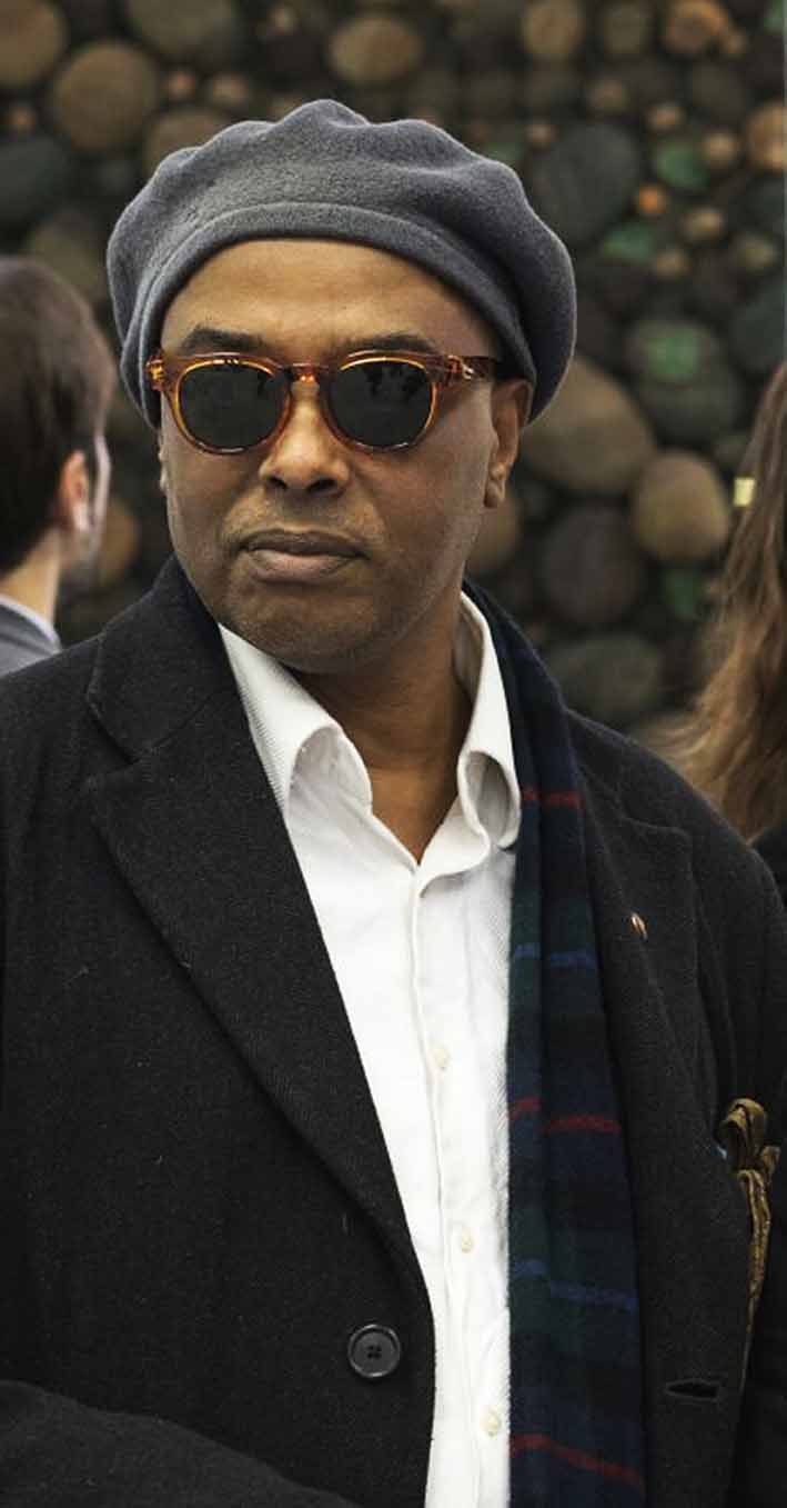 Fathi Hassan